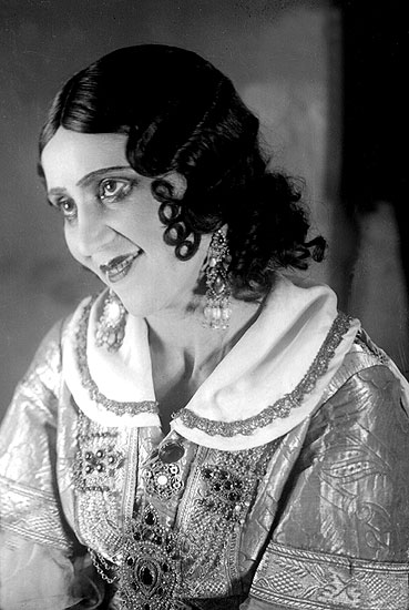 Azerbaijani actress Marziya Davudova as Desdemona ("Otello")